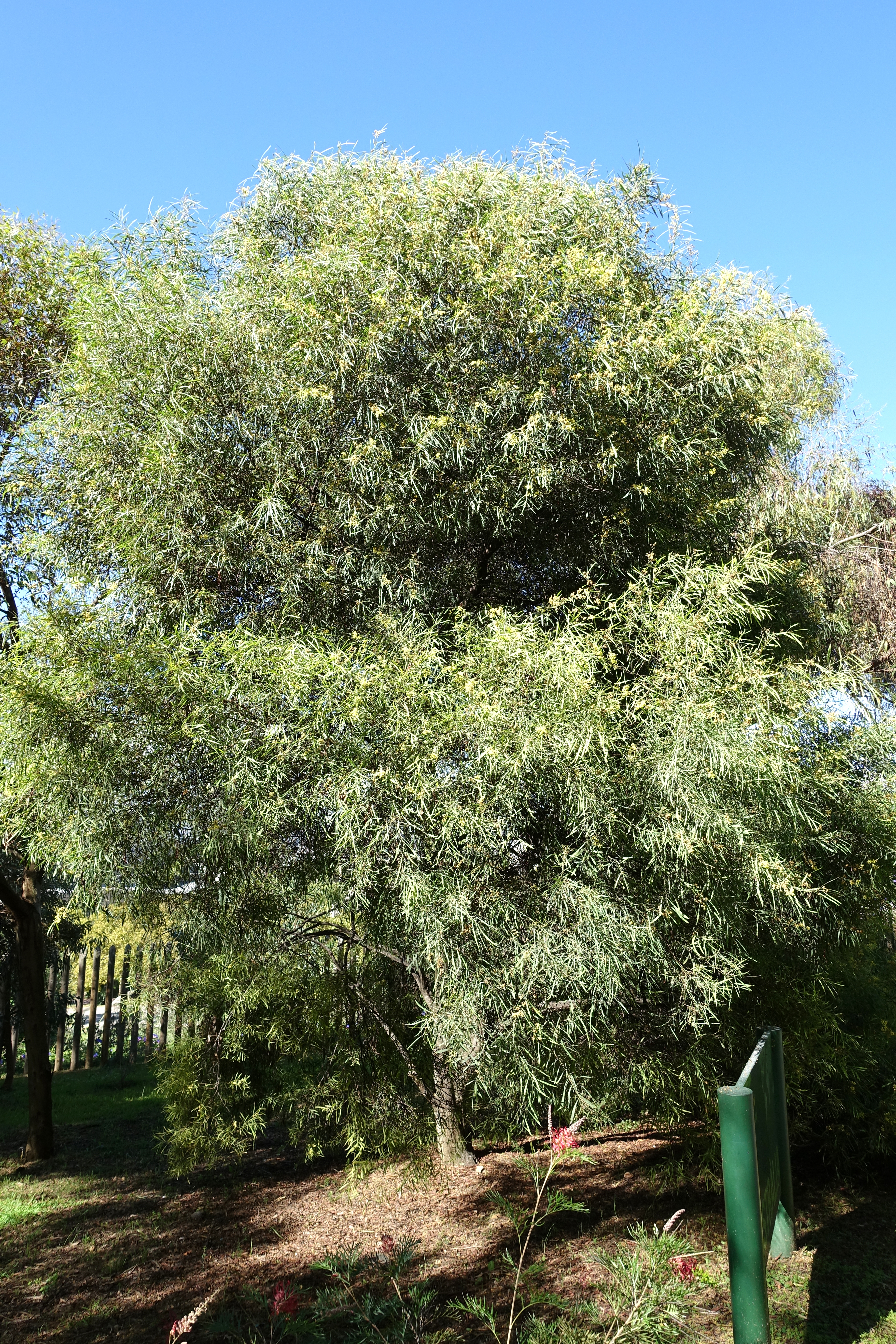 Botanical specimen in the Jardín Botánico de Barcelona - Barcelona, Spain.